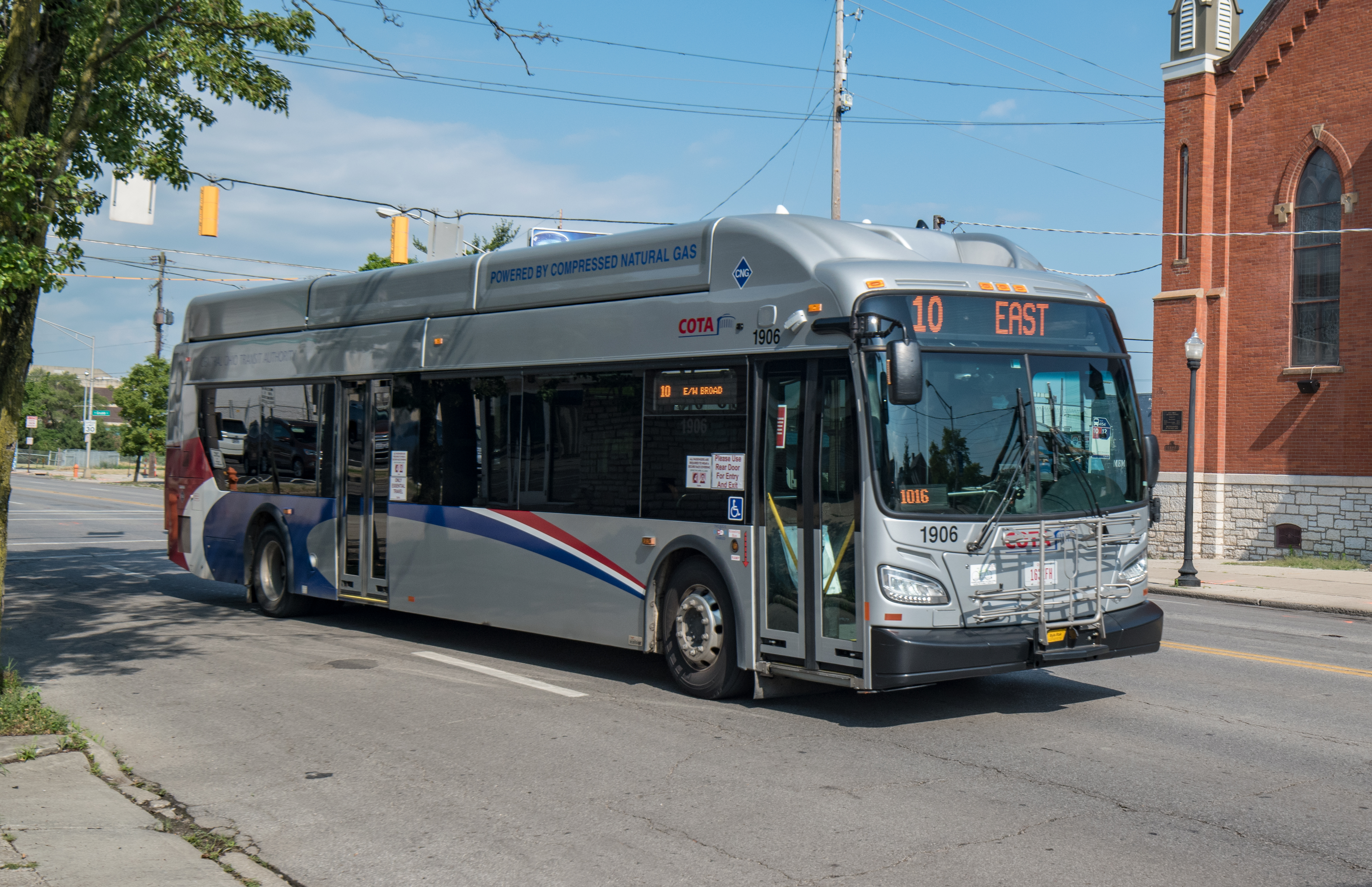 COTA 1906 bus, a 2019 New Flyer XN40, a 40-ft CNG bus.